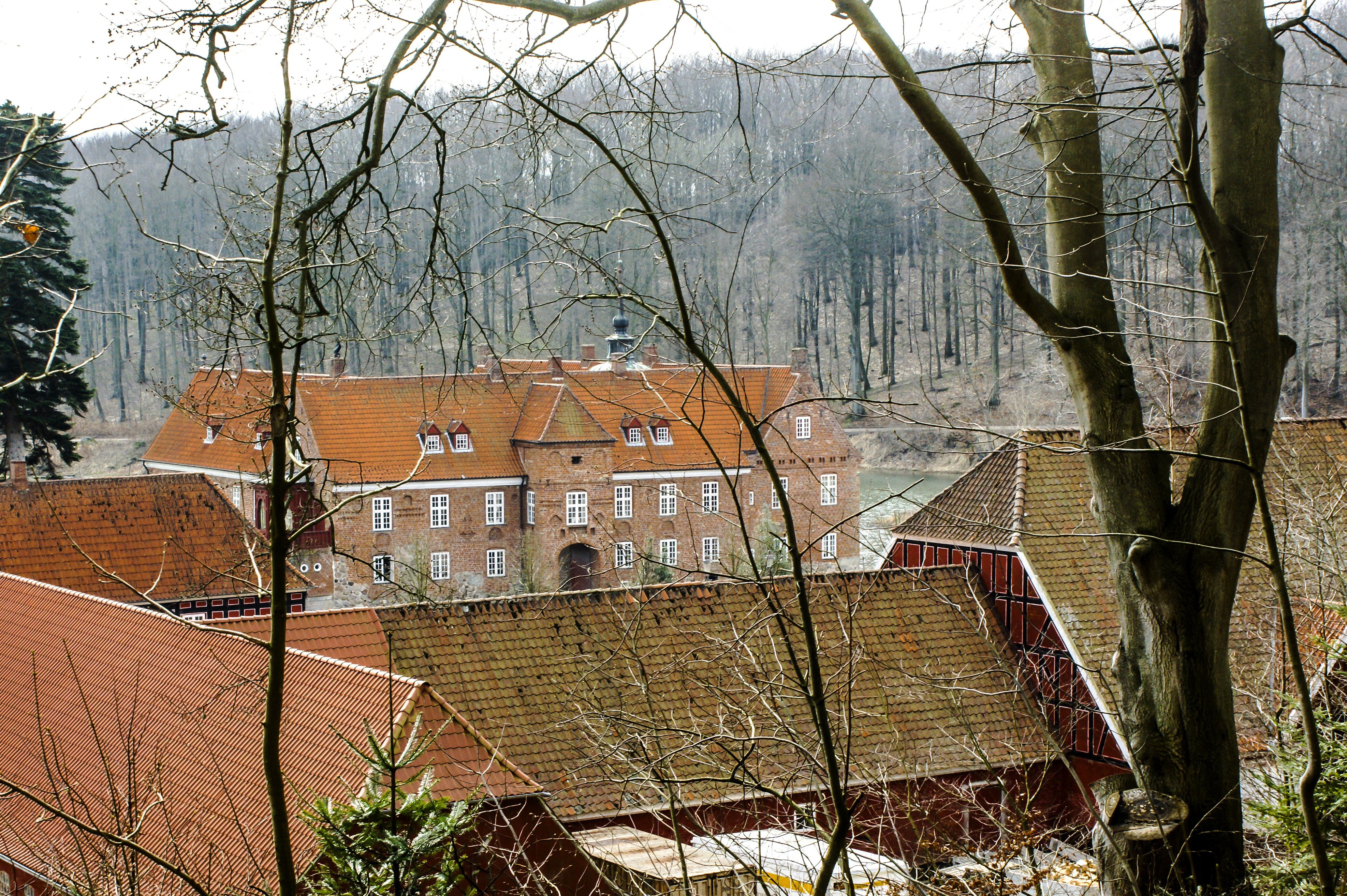 The north side of Tirsbæk manor